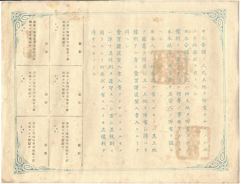 Backside of a real estate (presumably farmland) ownership certificate in Meiji era Japan. Issued by Akita Prefecture. The face of this certificate is [1].